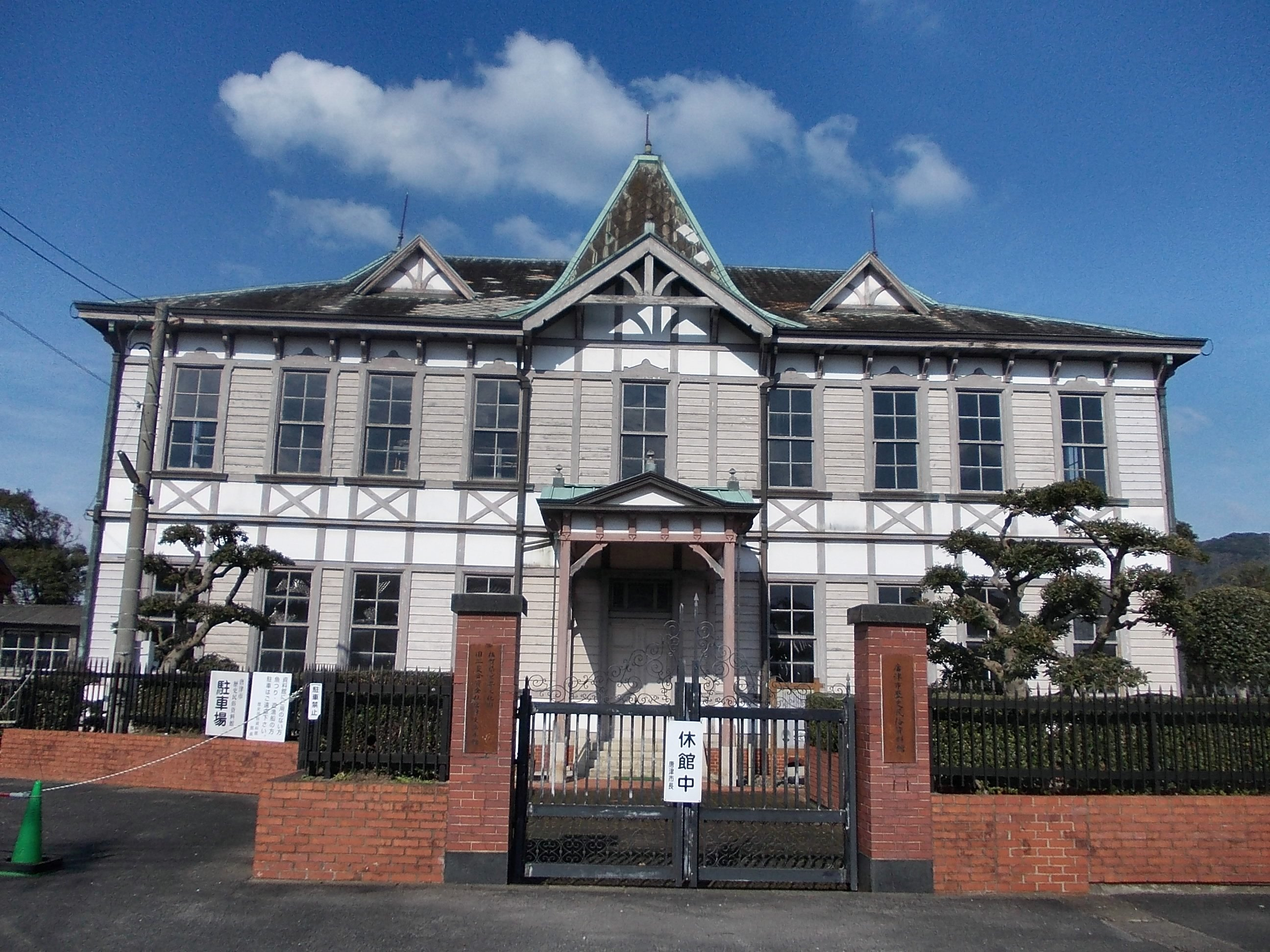 The Former Mitsubishi Gōshi (limited partnership) Karatsu Branch in Karatsu City, Saga, Japan. It was originally built by the Mitsubishi Corporation in 1908. The restoration works has been done in 1978 and used as the Karatsu City Museum of History and Folklore, but it will be closed now.